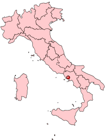 Location of Naples (red dot) in Italy